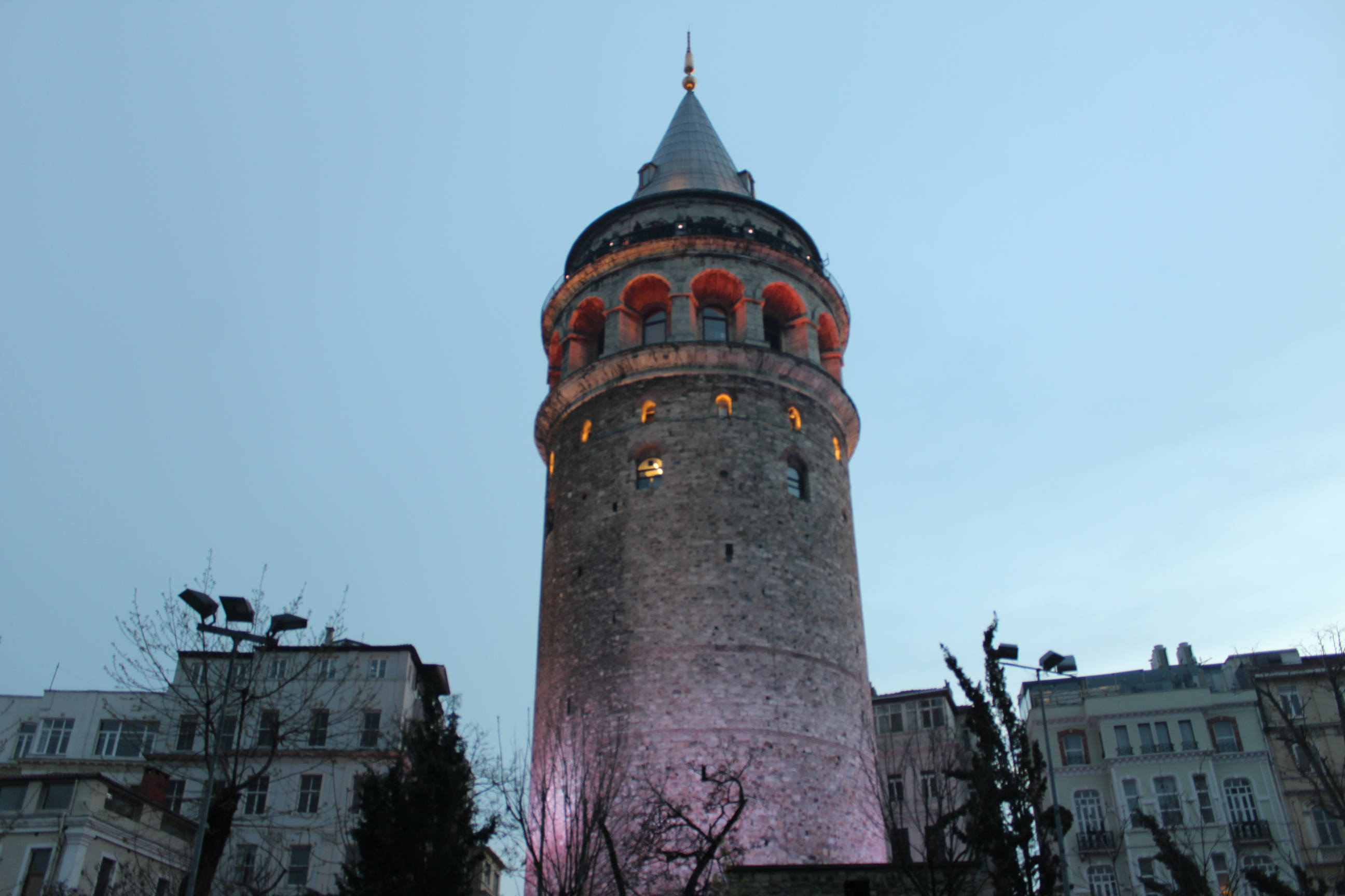 Istanbul, Turkey